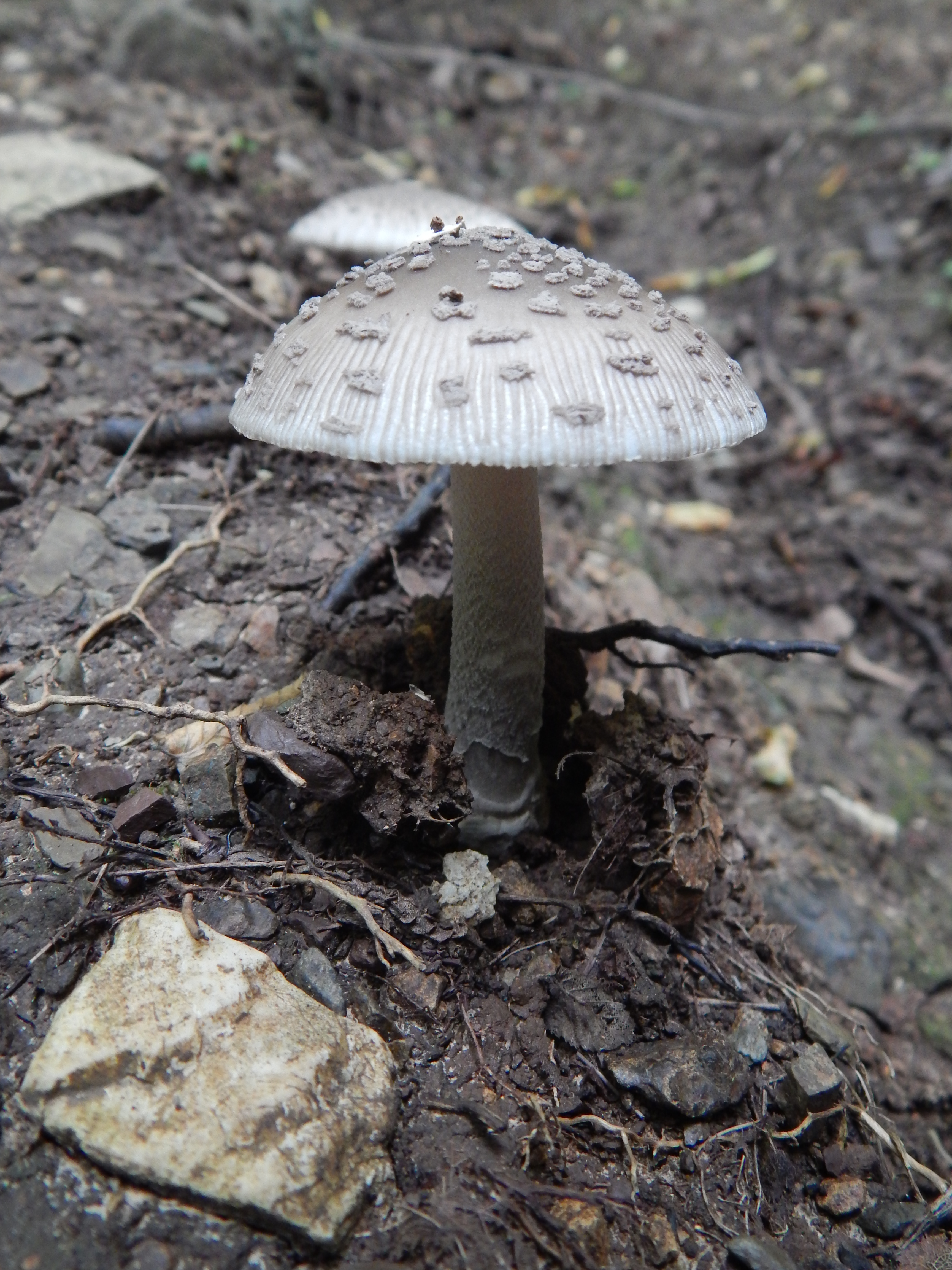 Amanita vaginata